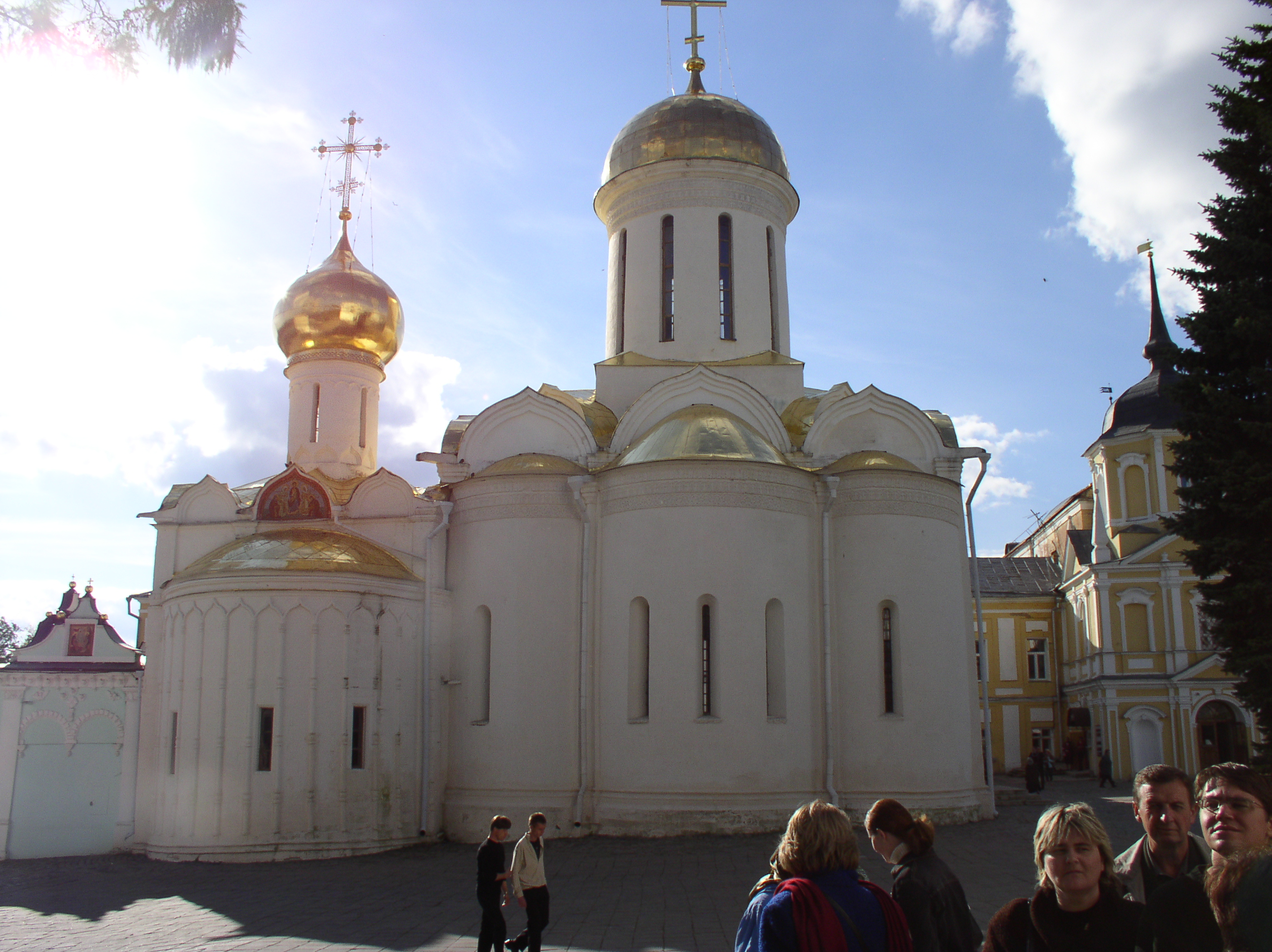 Trinity Cathedral. Sergiev Posad, Russia.